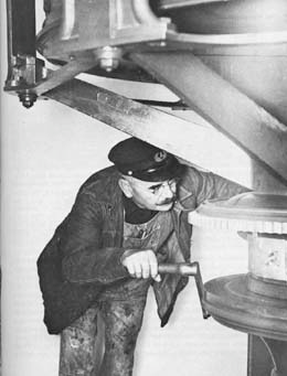 West Point lighthouse keeper winding clockwork mechanism, ca. 1890